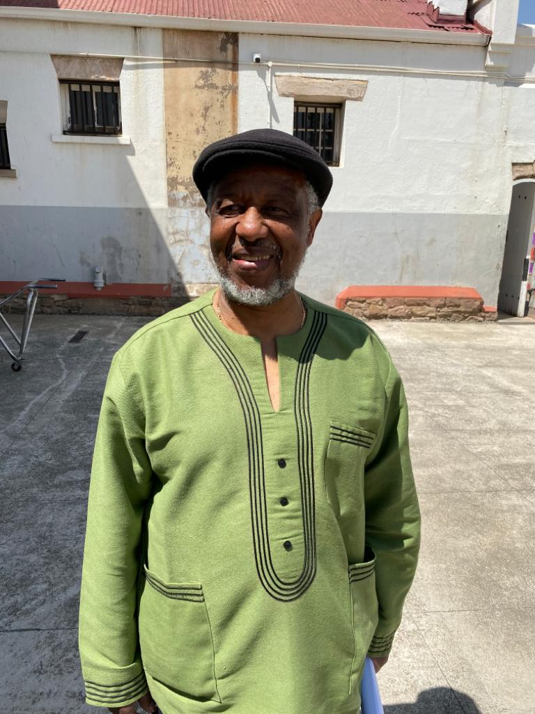 This pictures was taken by myself at constitution hill where I was running a train the trainer Wikipedia edit workshop where we invited high school learners and teachers to teach them how to edit on Wikipedia. The theme on the day was Constitution of South Africa, Dumisa Ntsebeza was one of the speakers to open the event on the day.